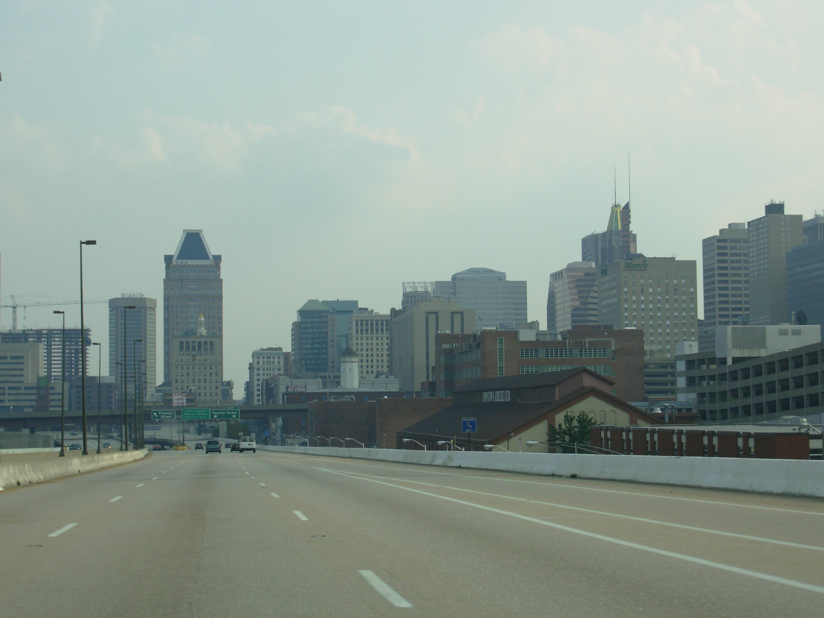 Skyline of Baltimore from I-83 Image:DOWNTOWN BMORE.jpg